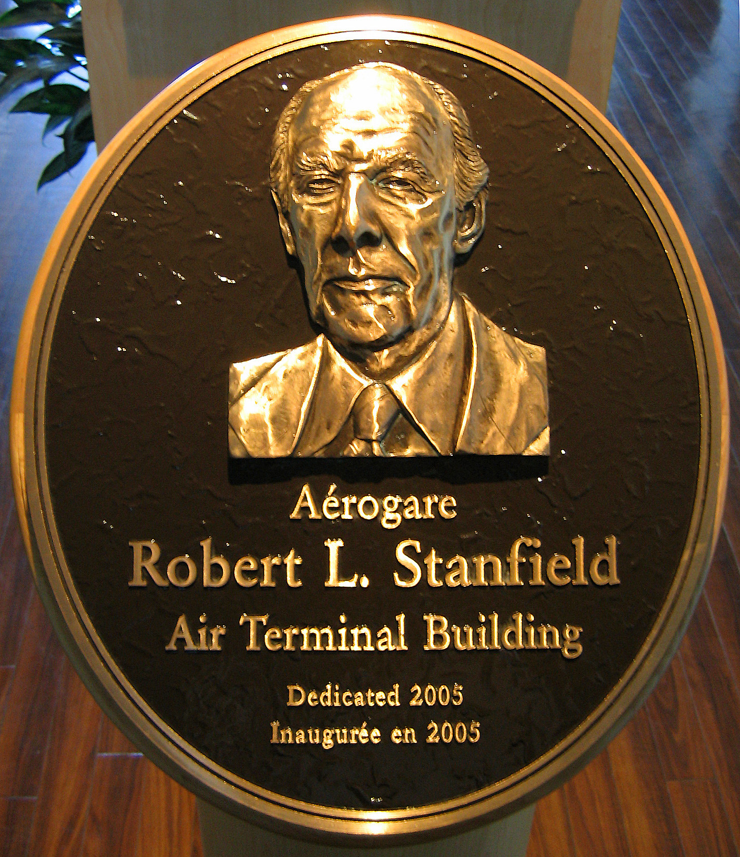 Bronze plaque of Nova Scotia politician Robert L Stanfield, whom the airport is now named after